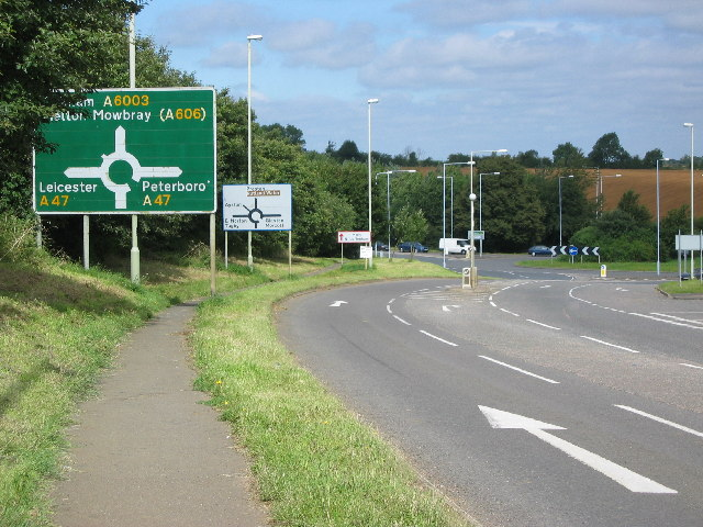 Roundabout on A47, Uppingham. Typical major road junction!